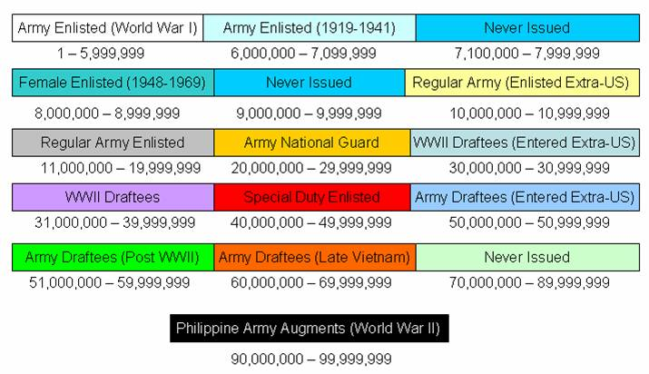 Army Enlisted Service Number Chart